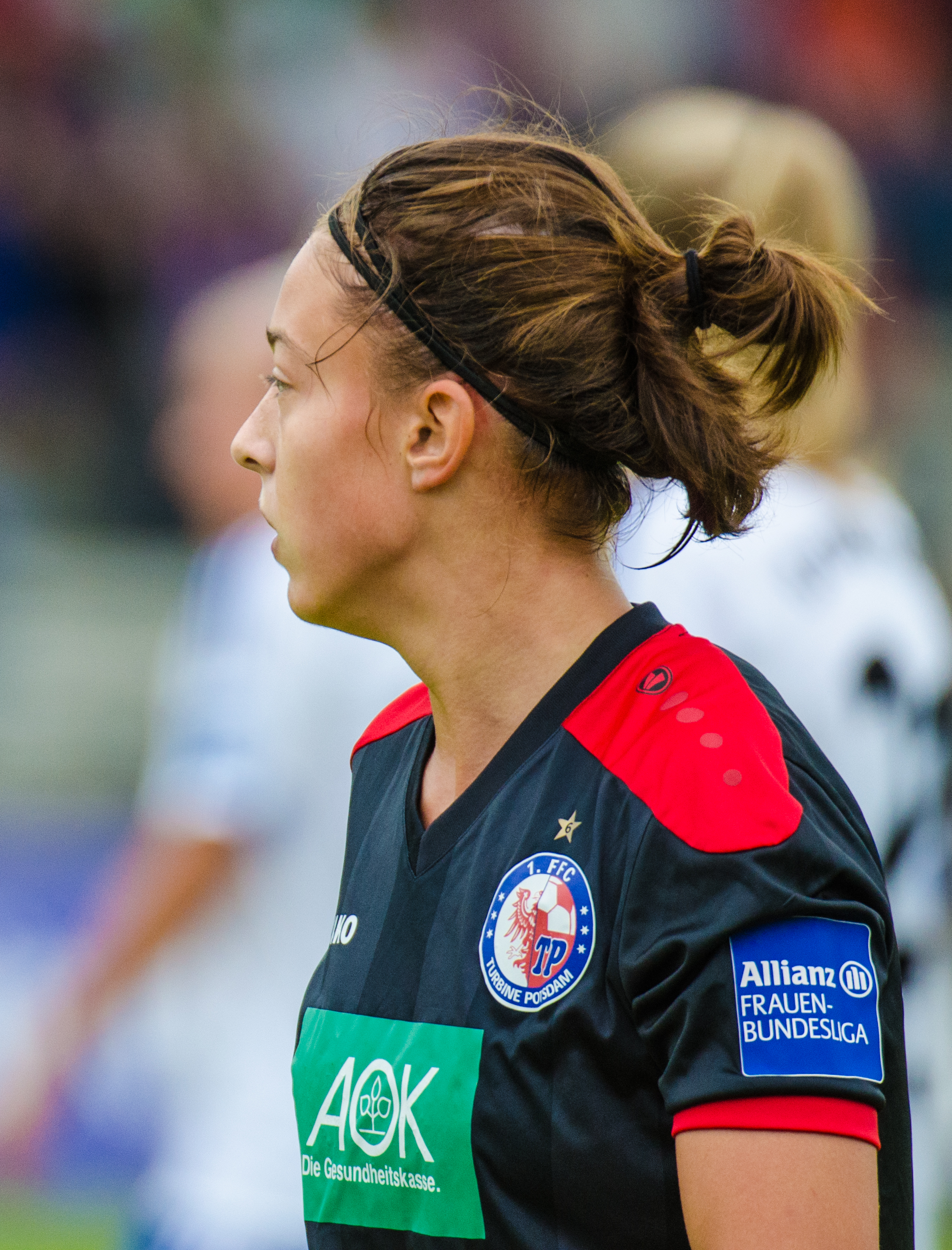 Match of the German Women's Football Bundesliga between 1.FFC Frankfurt and 1. FFC Turbine Potsdam, 2015-09-13